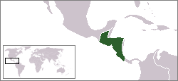 Locatie van de Verenigde Staten van Centraal-Amerika. Location of the Federal Republic of Central America.